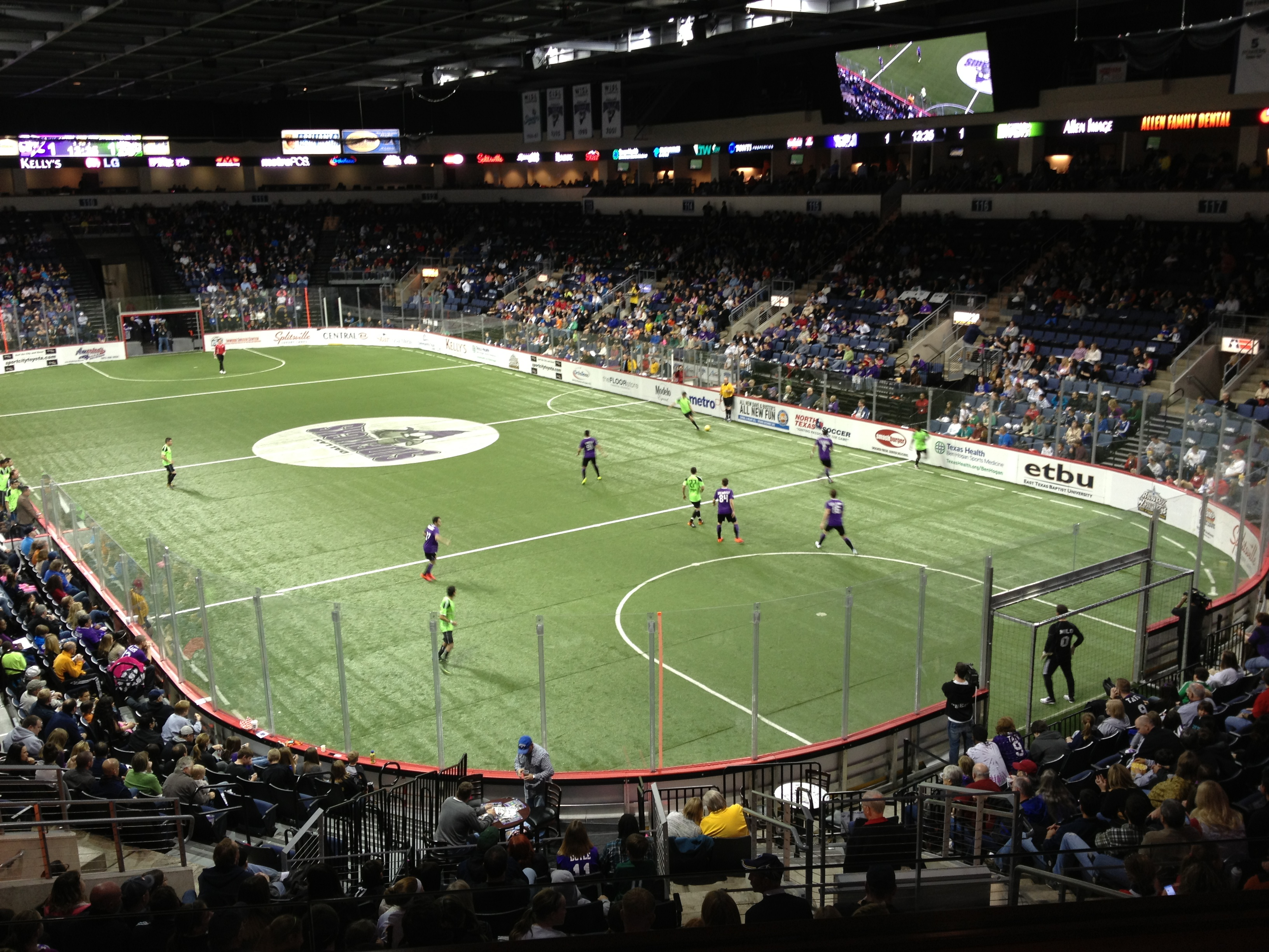 Indoor soccer teams in action during the February 23, 2013, Professional Arena Soccer League match between the Dallas Sidekicks and the Texas Strikers at the Allen Event Center in Allen, Texas.